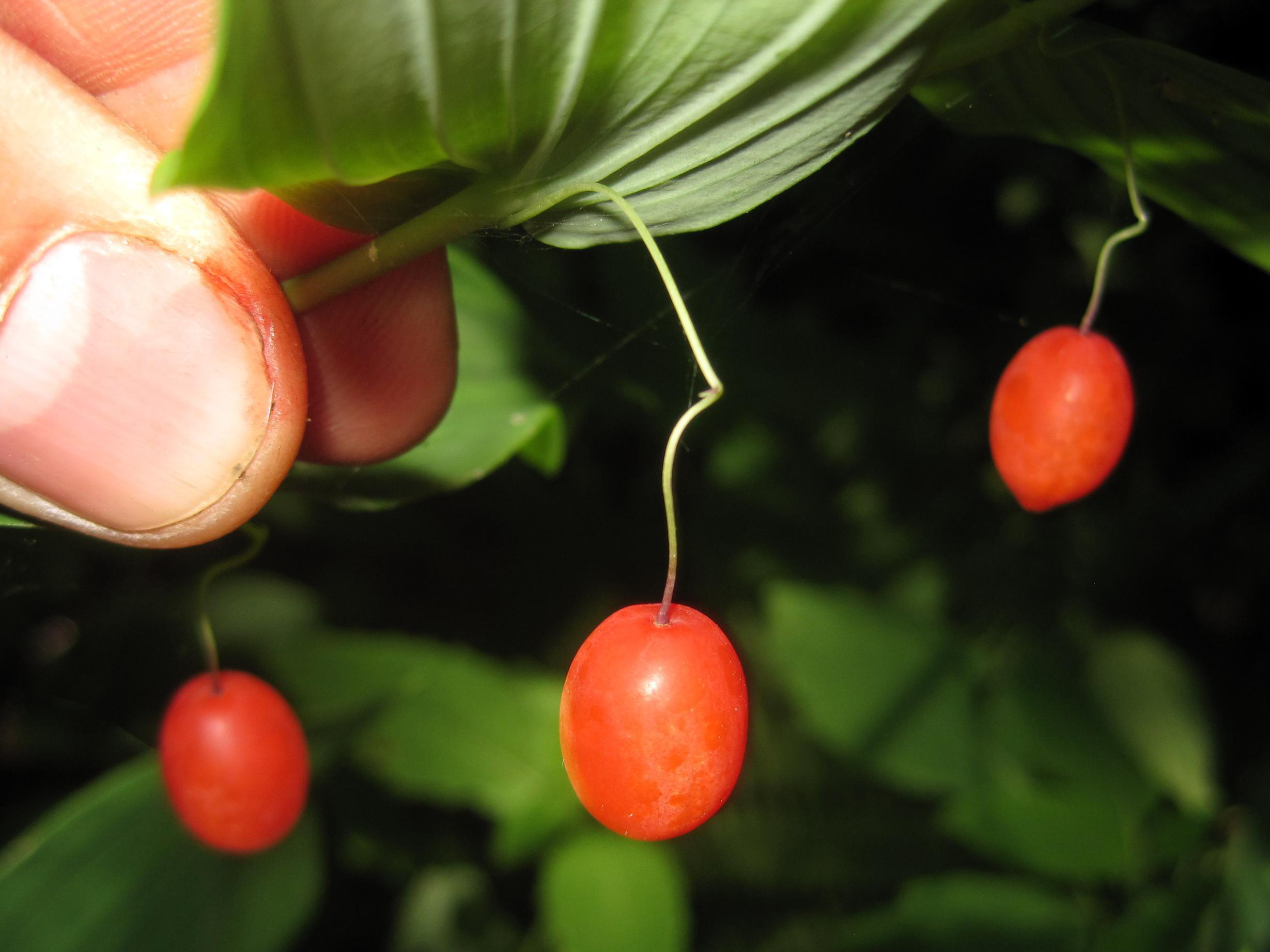 Claspingleaf twistedstalk/white mandarin fruit (Streptopus amplexifolius) - Upper Kelly's Creek, Goulais River, Ontario, Canada